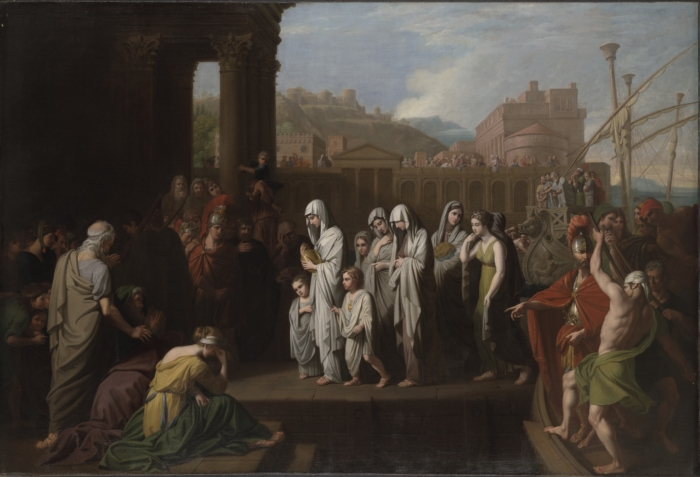 Agrippina Landing at Brundisium with the Ashes of Germanicus